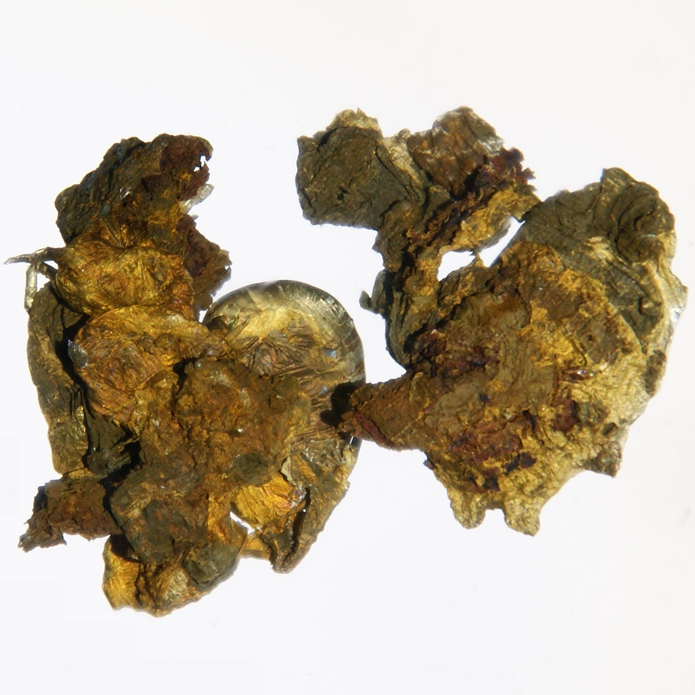 Two oxidized pieces of cadmium, each about 2 cm in size. Cadmium monoxide, CdO, is a yellow-brown, highly toxic compound.